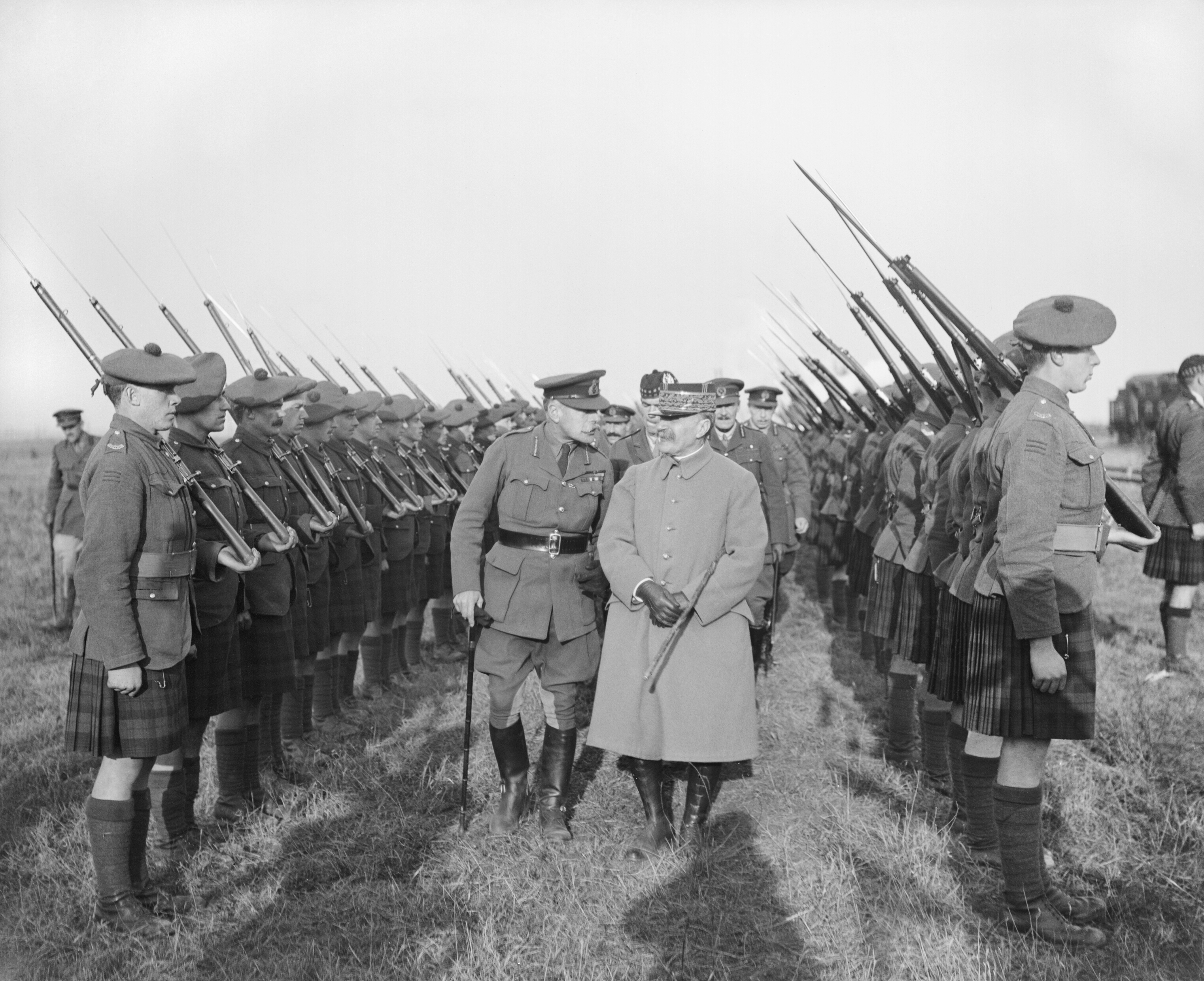 The Cooperation of the Allied Forces on the Western Front, 1914-1918 Marshal Ferdinand Foch, the Supreme Commander of the Allied Forces, and Field Marshal Douglas Haig, the C-in-C of the British Army, inspecting the Guard of Honour of the C Company, 6th Battalion, Gordon Highlanders at Iwuy, 15 November 1918.